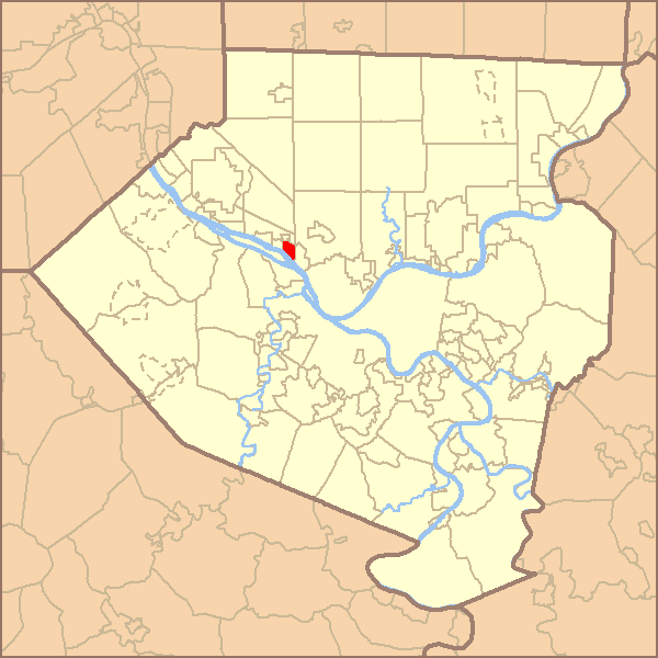 Map highlighting the municipality within Allegheny County, Pennsylvania.